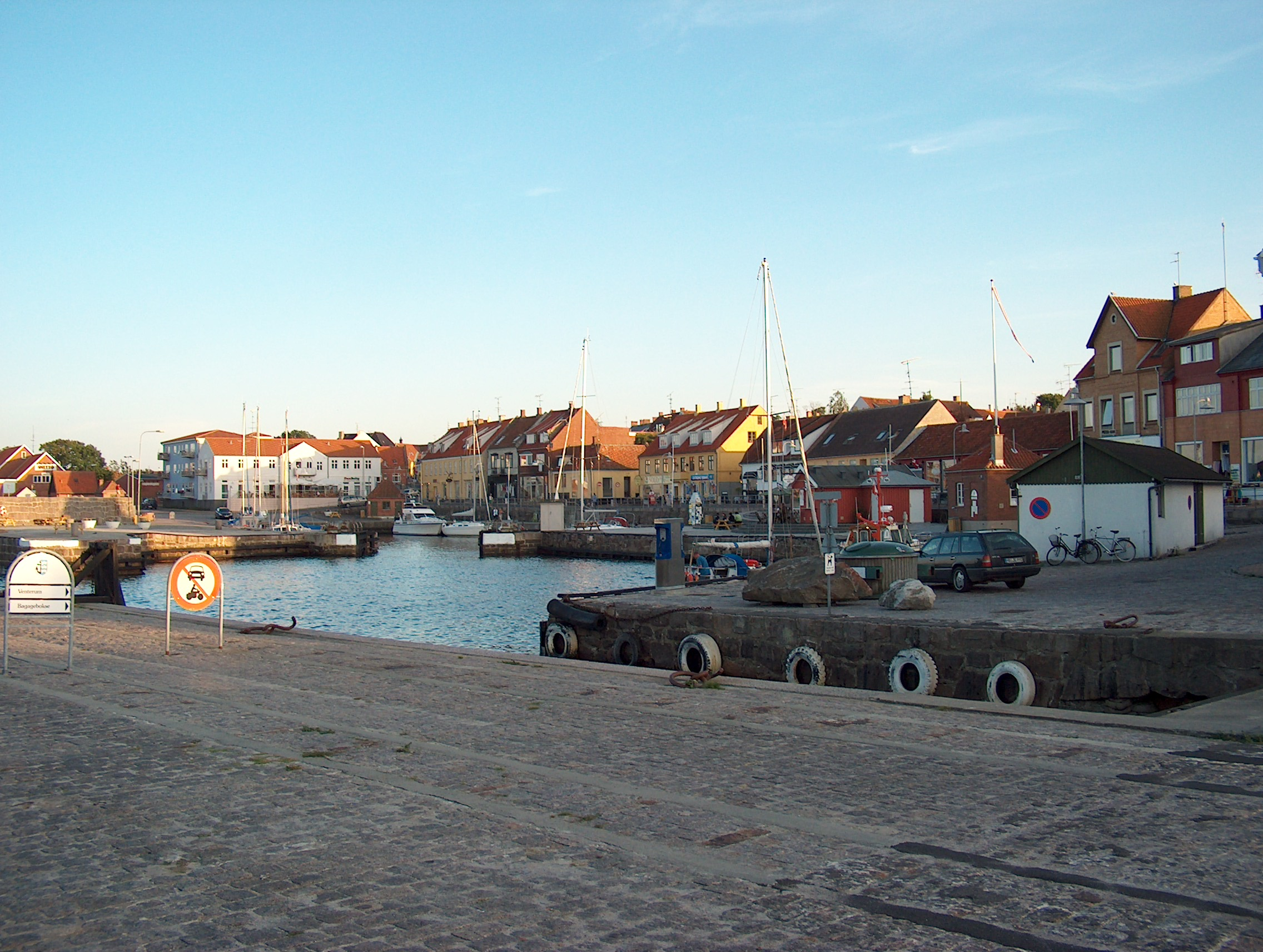 The harbor in the city Allinge on the Danish island Bornholm.